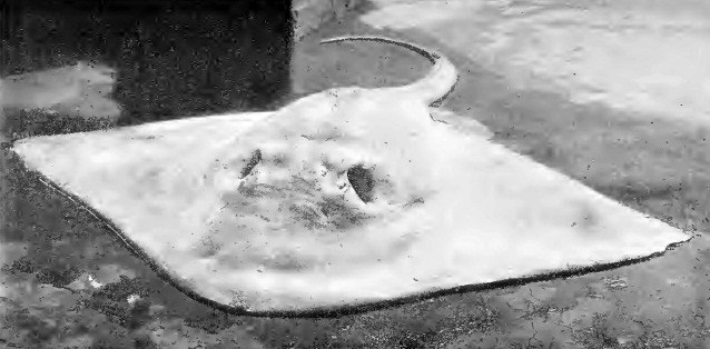 Holotype of the smalleye stingray (Dasyatis microps)